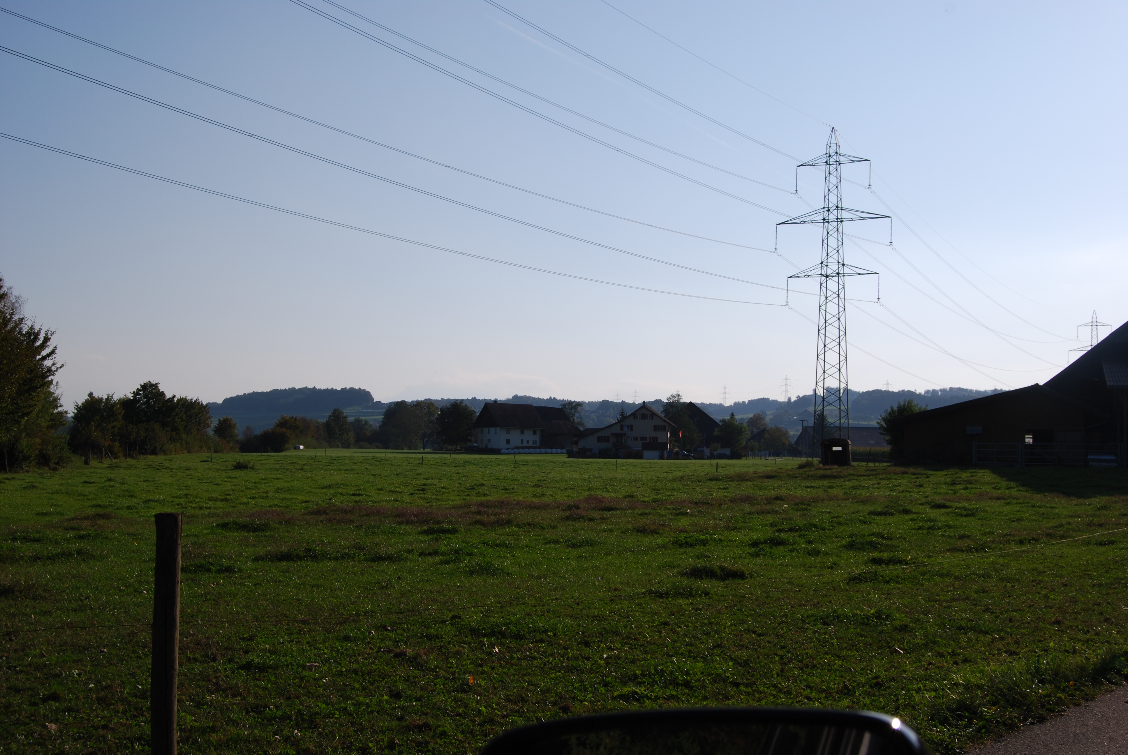 Schoren, municipality of Mühlau, canton of Aargau, SwitzerlandEsperanto: Schoren, komunumo de Mühlau, Kantono Argovio, Svislando